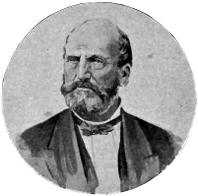 Joel Aldrich Matteson, Gov. of Illinois 1853-57